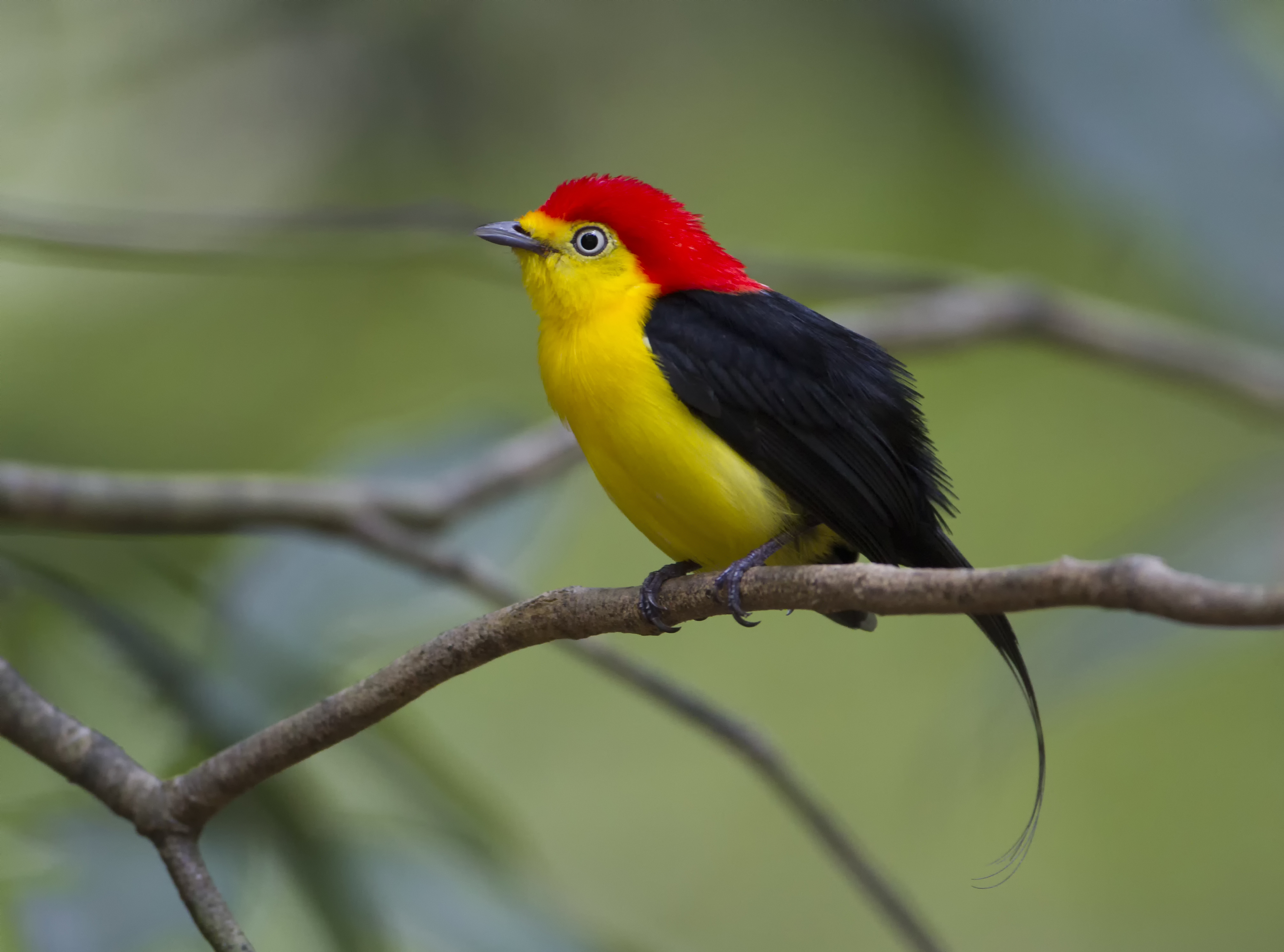 Pipra filicauda in Amazonon rainforest